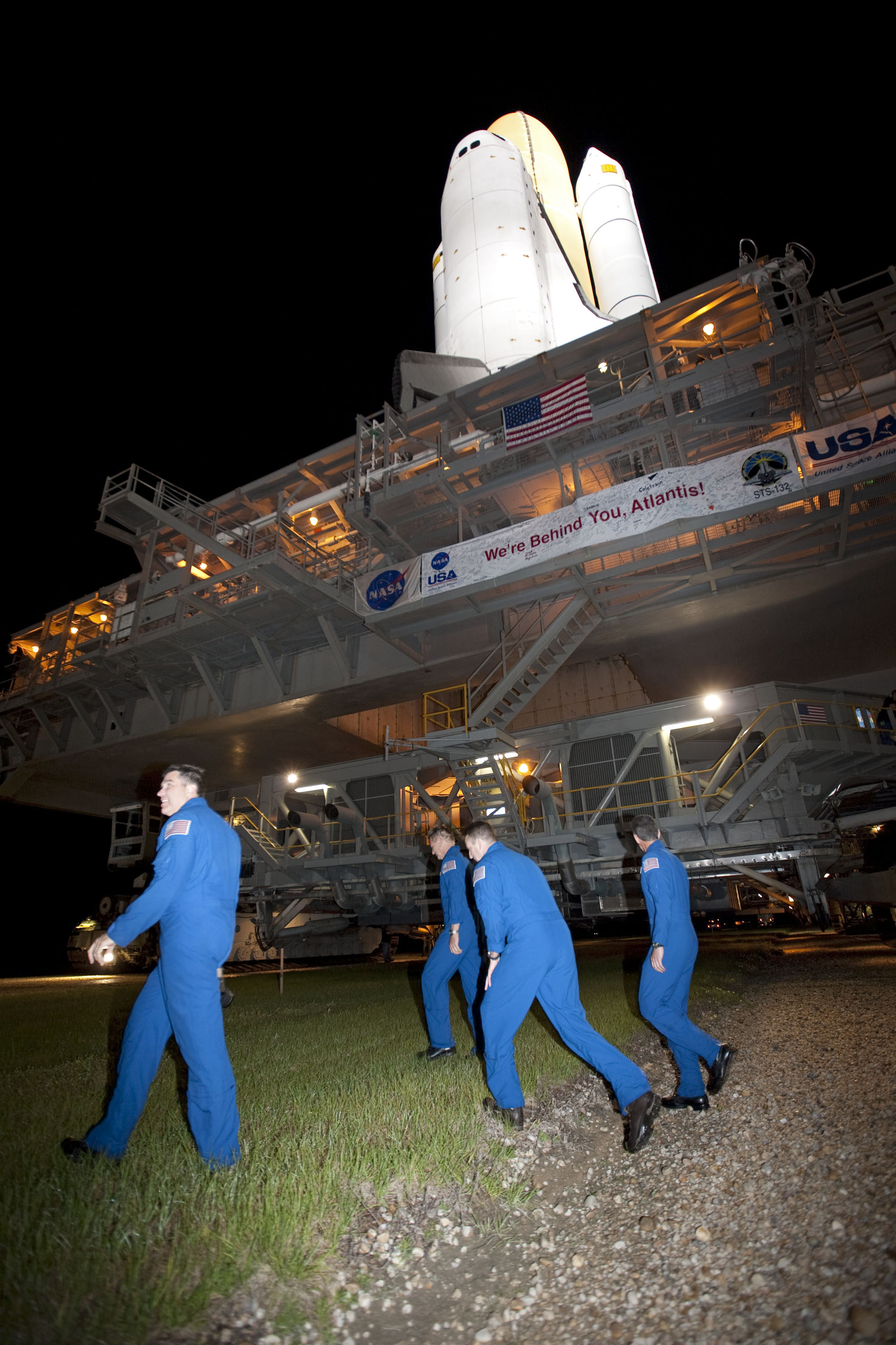 At NASA's Kennedy Space Center in Florida, members of the STS-132 crew join space shuttle Atlantis on the crawlerway as it rolls from the Vehicle Assembly Building to Launch Pad 39A. Atlantis' first motion on its 3.4-mile trip was at 11:31 p.m. EDT April 21. The shuttle was secured on the pad at 6:03 a.m. April 22. Rollout is a significant milestone in launch processing activities. On the STS-132 mission, the six-member crew will deliver an Integrated Cargo Carrier, or ICC, and the Russian-built Mini-Research Module-1, or MRM-1, to the International Space Station. The ICC is an unpressurized flat bed pallet and keel yoke assembly used to support the transfer of exterior cargo from the shuttle to the space station. The MRM-1, known as Rassvet, is the second in a series of new pressurized components for Russia and will be permanently attached to the Earth-facing port of the Zarya control module. Rassvet, which translates to "dawn," will be used for cargo storage and will provide an additional docking port to the station. STS-132 is the 34th mission to the station and the 132nd shuttle mission overall. Atlantis is targeted to launch on May 14 at 2:19 p.m.